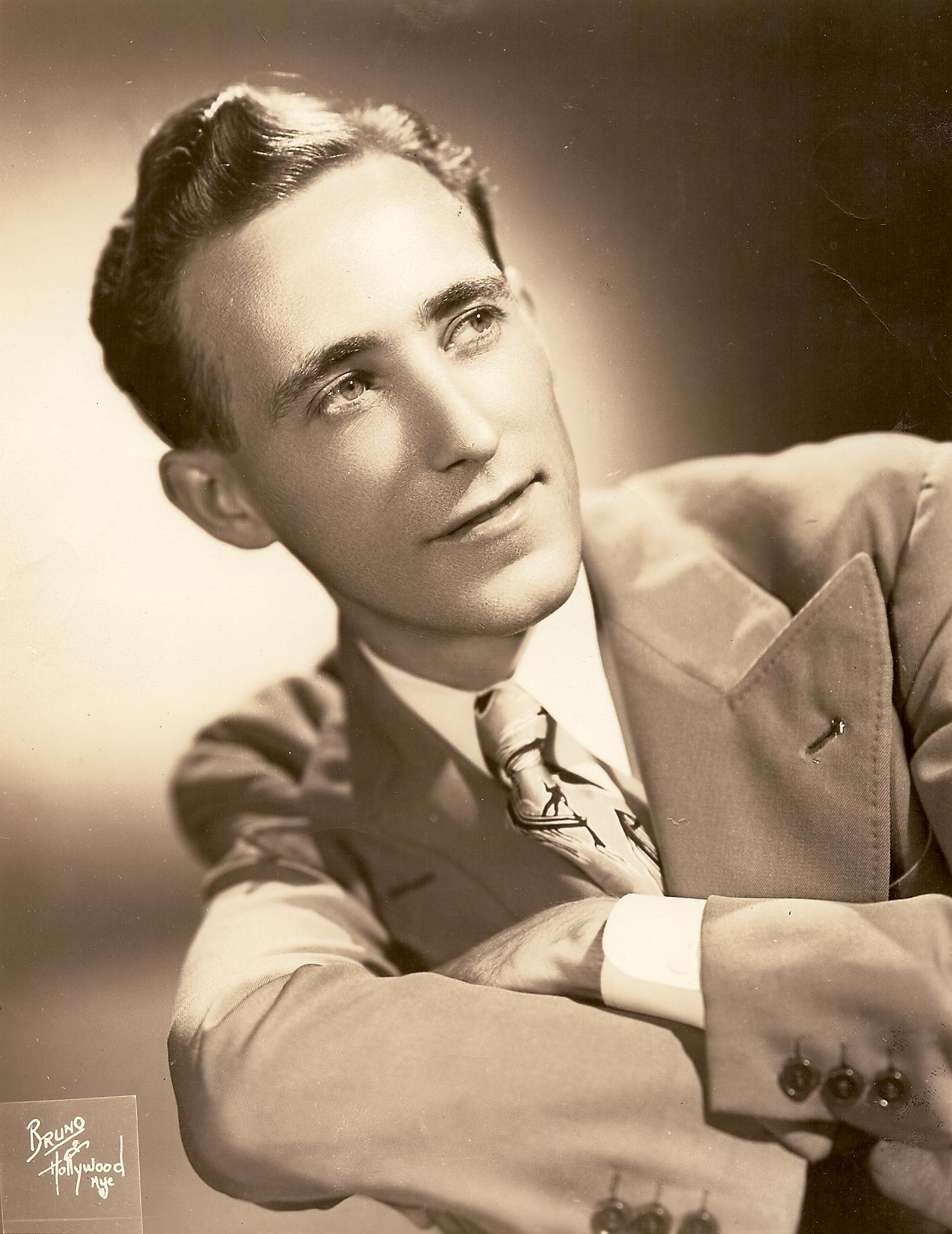 Photograph of Harry Brannon, the first American crooner to sing Rudolph the Red nosed Reindeer over New York City radio in 1948.